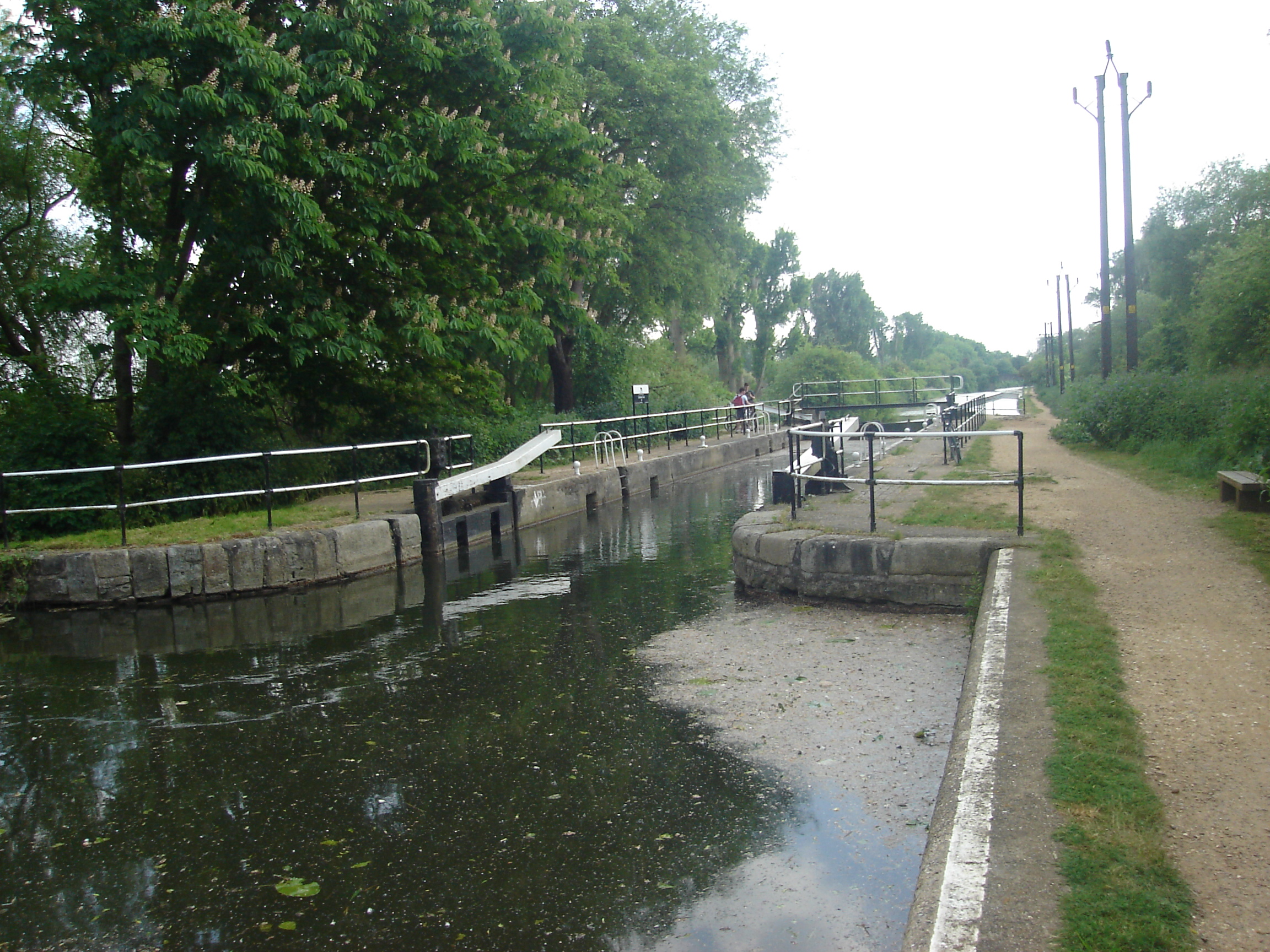 Picture of Cheshunt Lock